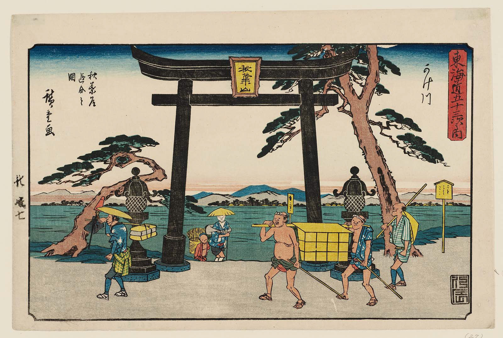 Kakegawa: Junction with the Akiba Road (Kakegawa, Akibamichi oiwake no zu), from the series The Fifty-three Stations of the Tôkaidô Road (Tôkaidô gojûsan tsugi no uchi), also known as the Gyôsho Tôkaidô